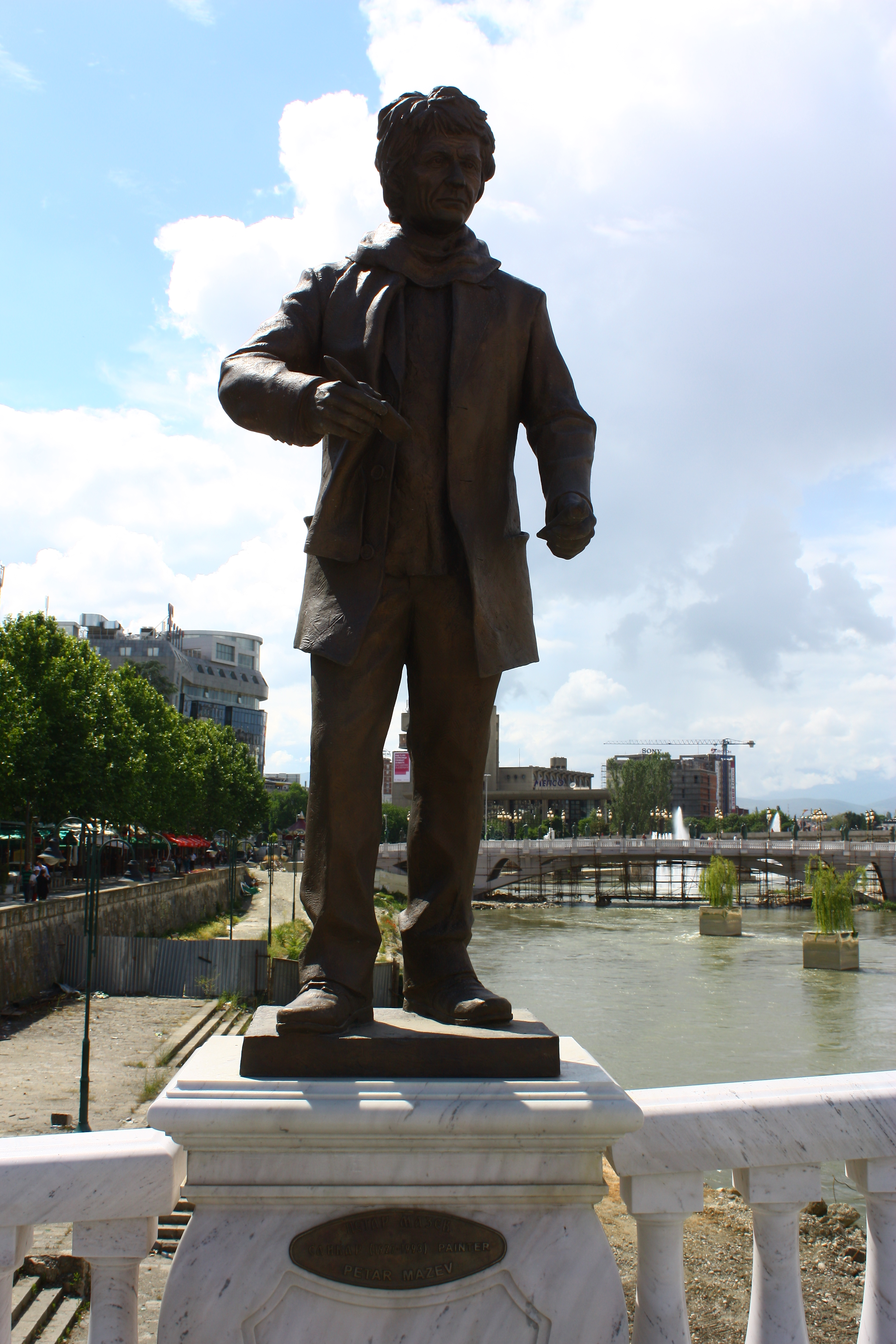 Sculpture od the Bridge of Arts in Skopje, Macedonia This image is uploaded as part of the picture contest Wiki Loves Cultural Heritage in Macedonia 2013. English | македонски | +/−